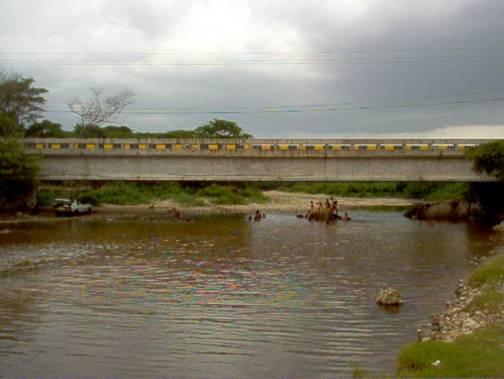 Ranchería